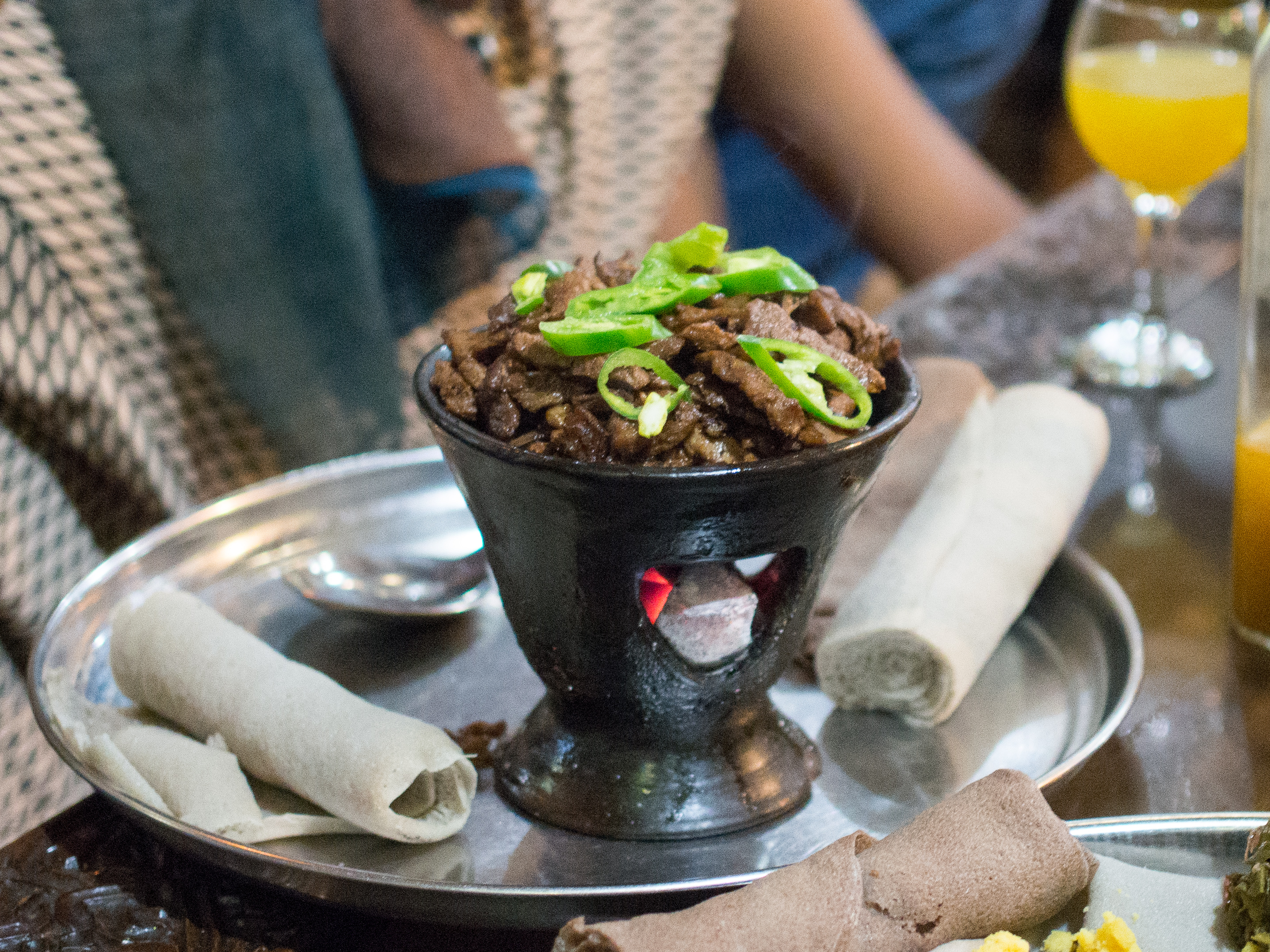 Tibs in Yod Abyssinia, Addis Ababa, Ethiopia This is an image of food from Ethiopia